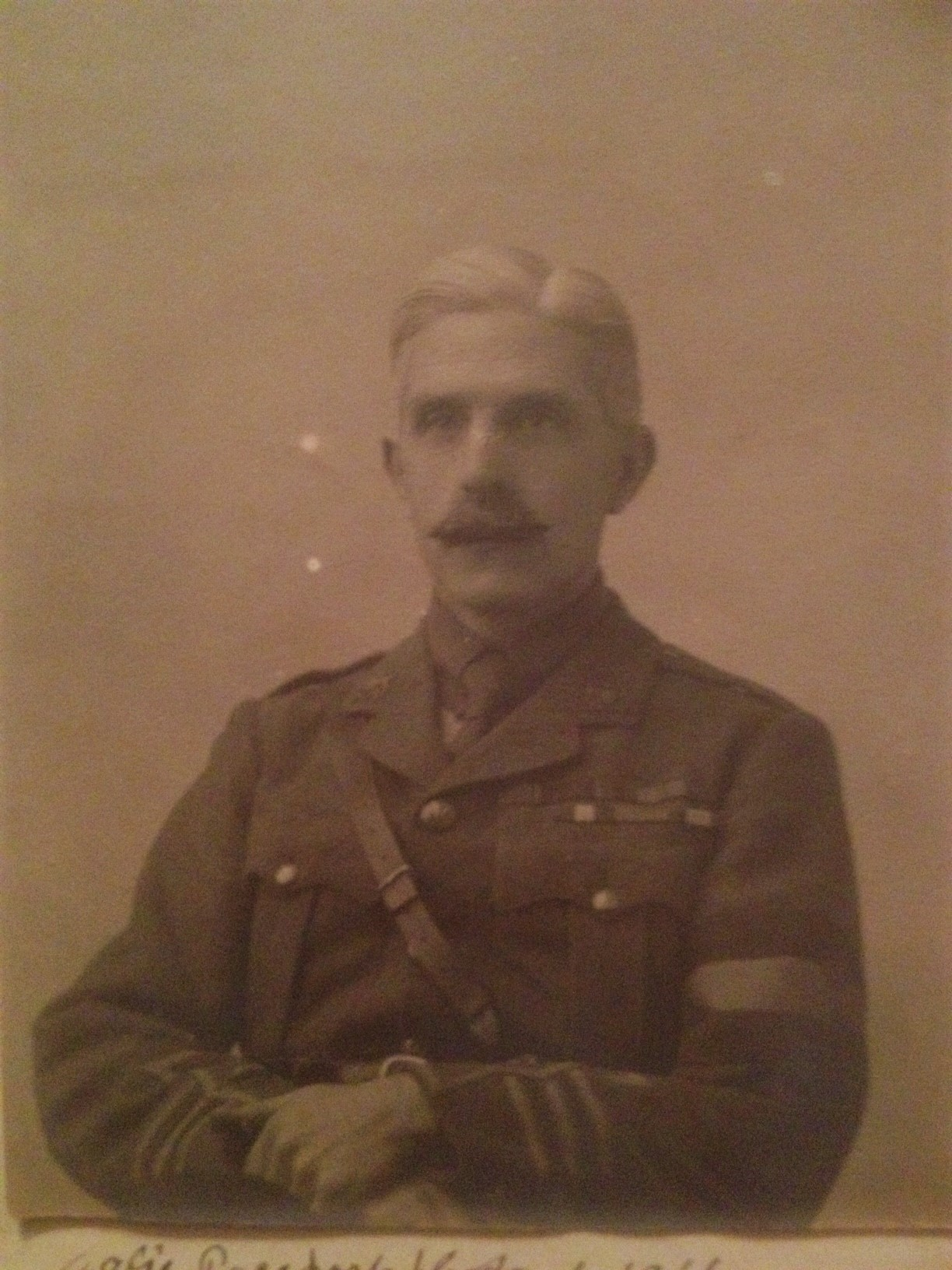 Major Gordon in 1916